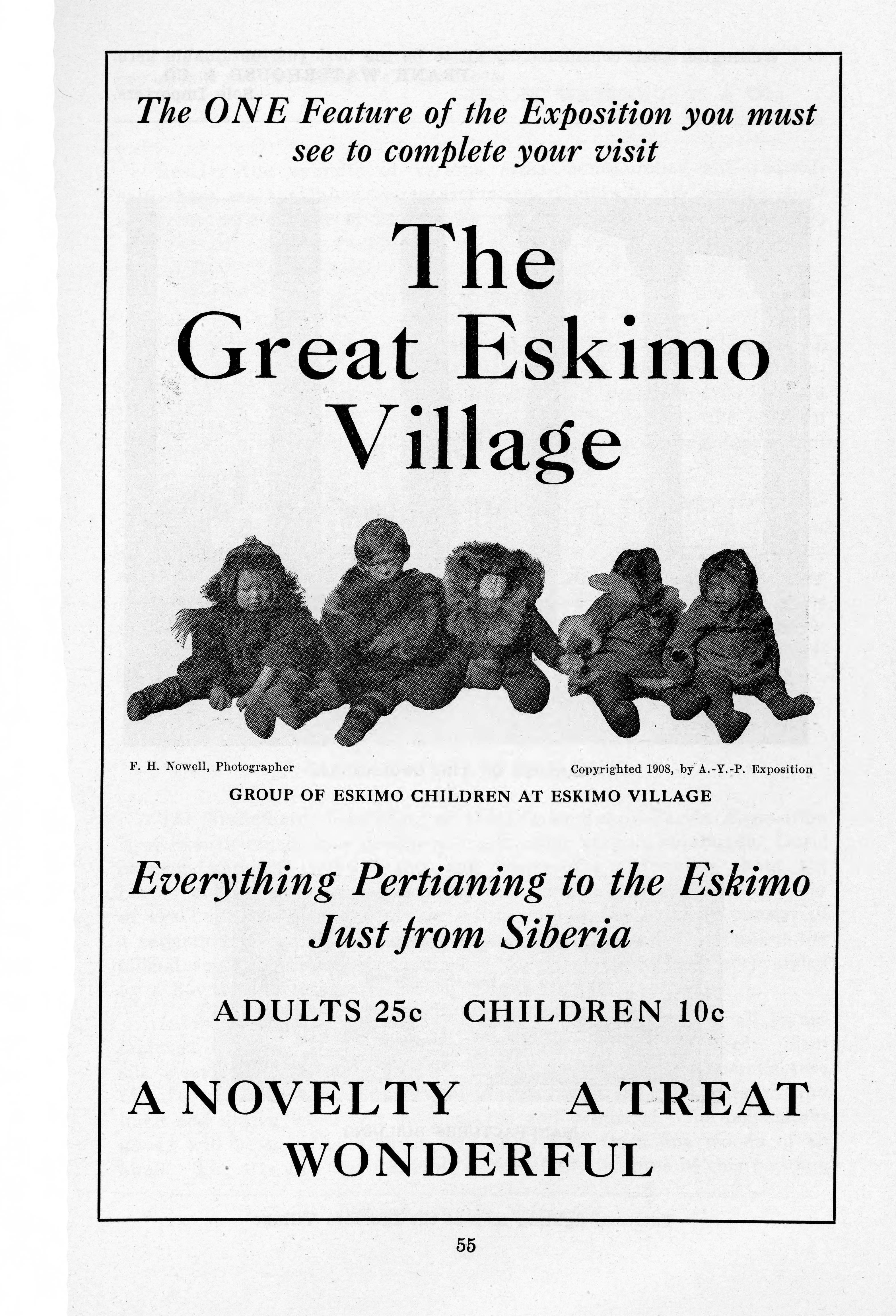 Ad for "Eskimo" exhibit on the Pay Streak at the Alaska-Yukon-Pacific Exposition, Seattle, Washington, 1909. In fact, the people in the exhibit were from Siberia. From the materials for the Alaska-Yukon-Pacific Exposition of 1909, held in Seattle.